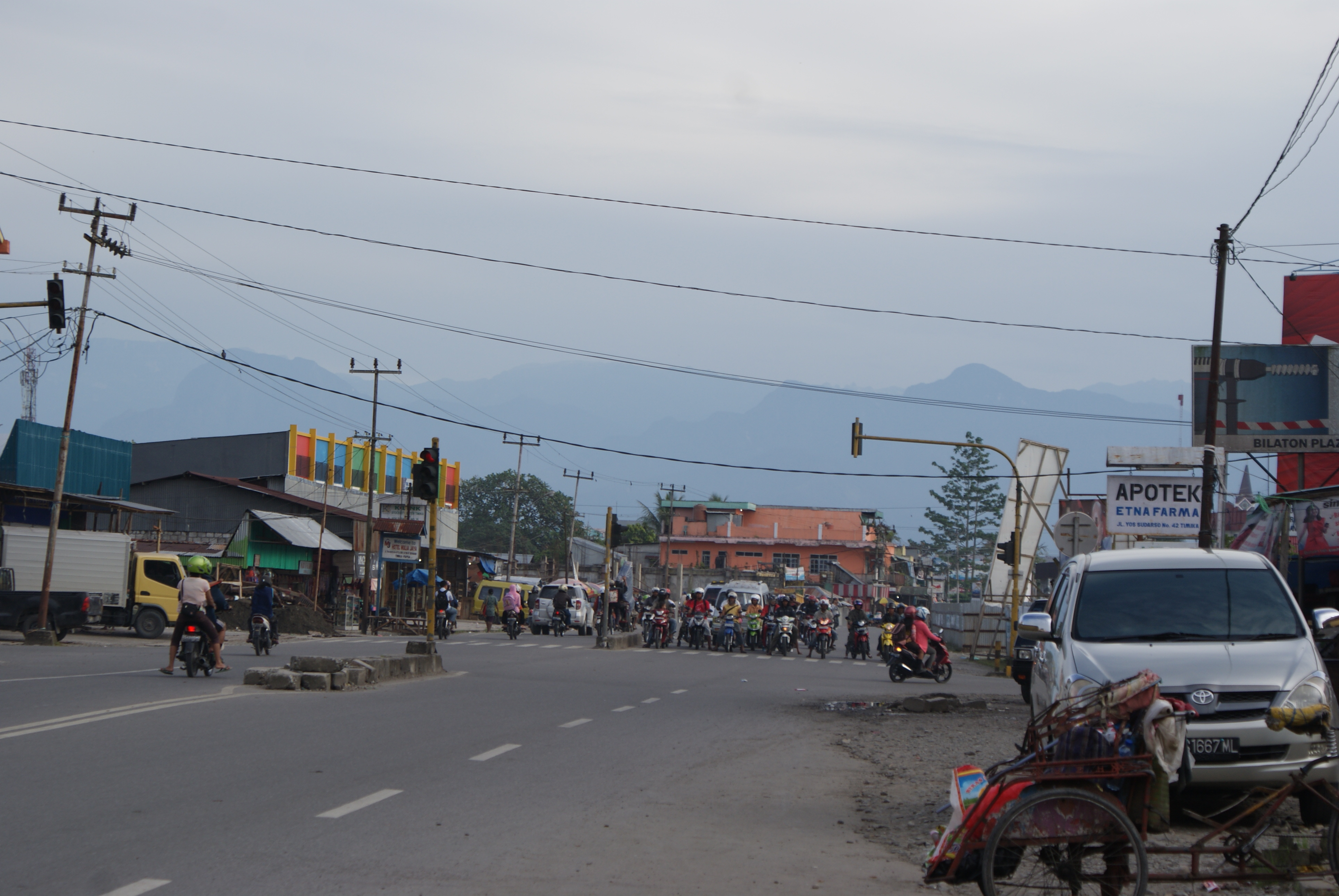 Timika city, Mimika, Papua.